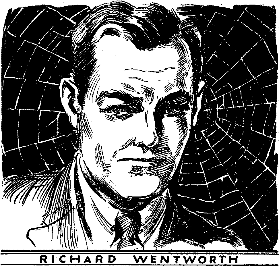 Illustration from the pulp magazine The Spider (October 1933, vol. 1, no. 1) for the story The Spider Strikes by R. T. M. Scott. Illustration of Richard Wentworth, the central character of the series. The background has been set to transparent.